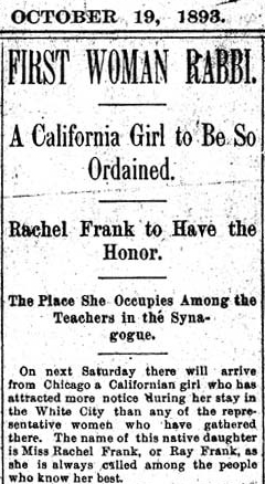 Article in the San Francisco Chronicle of 19 oct 1898, announcing erroneously the first woman rabbi (Rachel Ray Frank)